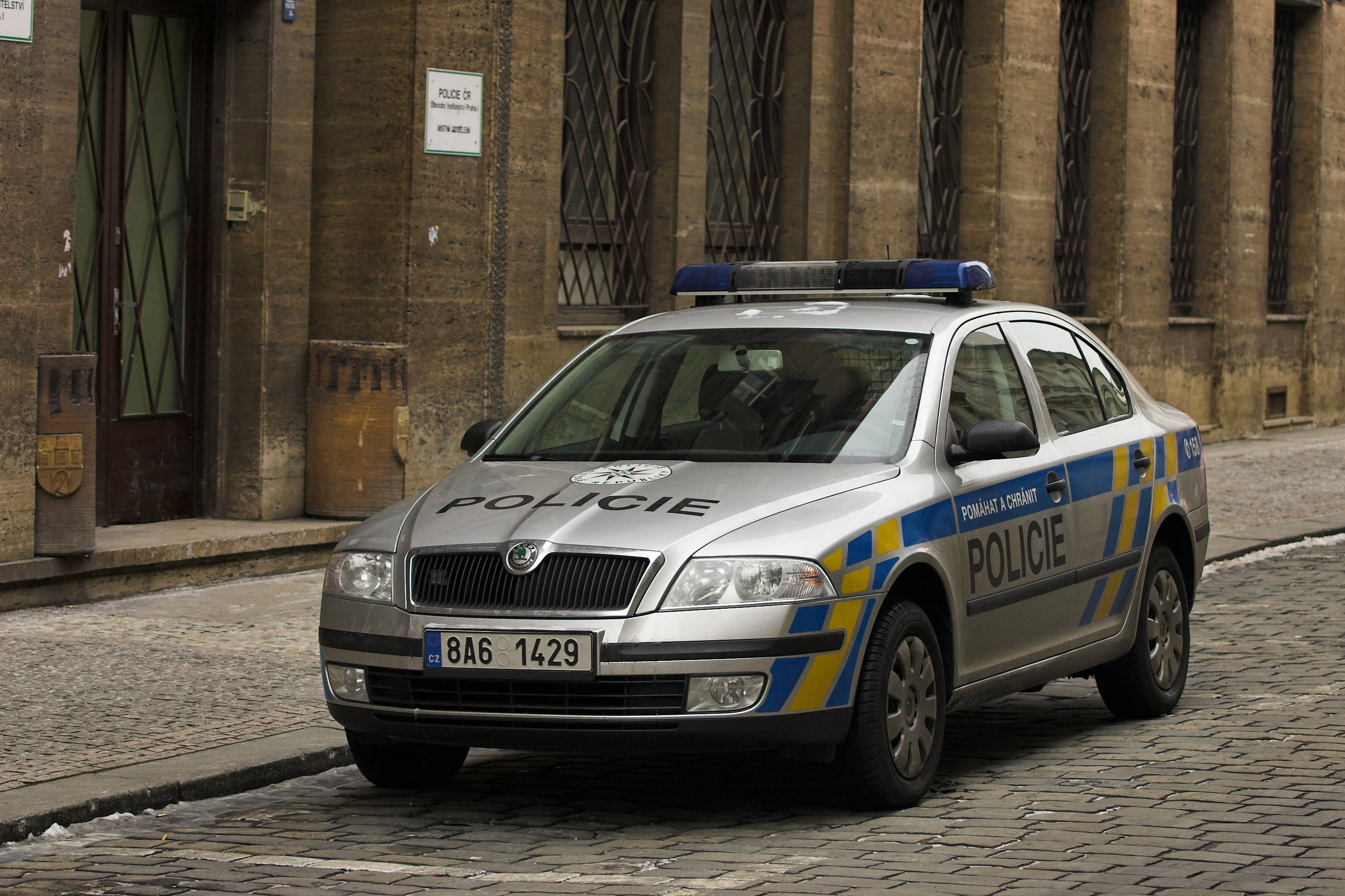 Car of the Police od the Czech Republic. New colours since year 2008.